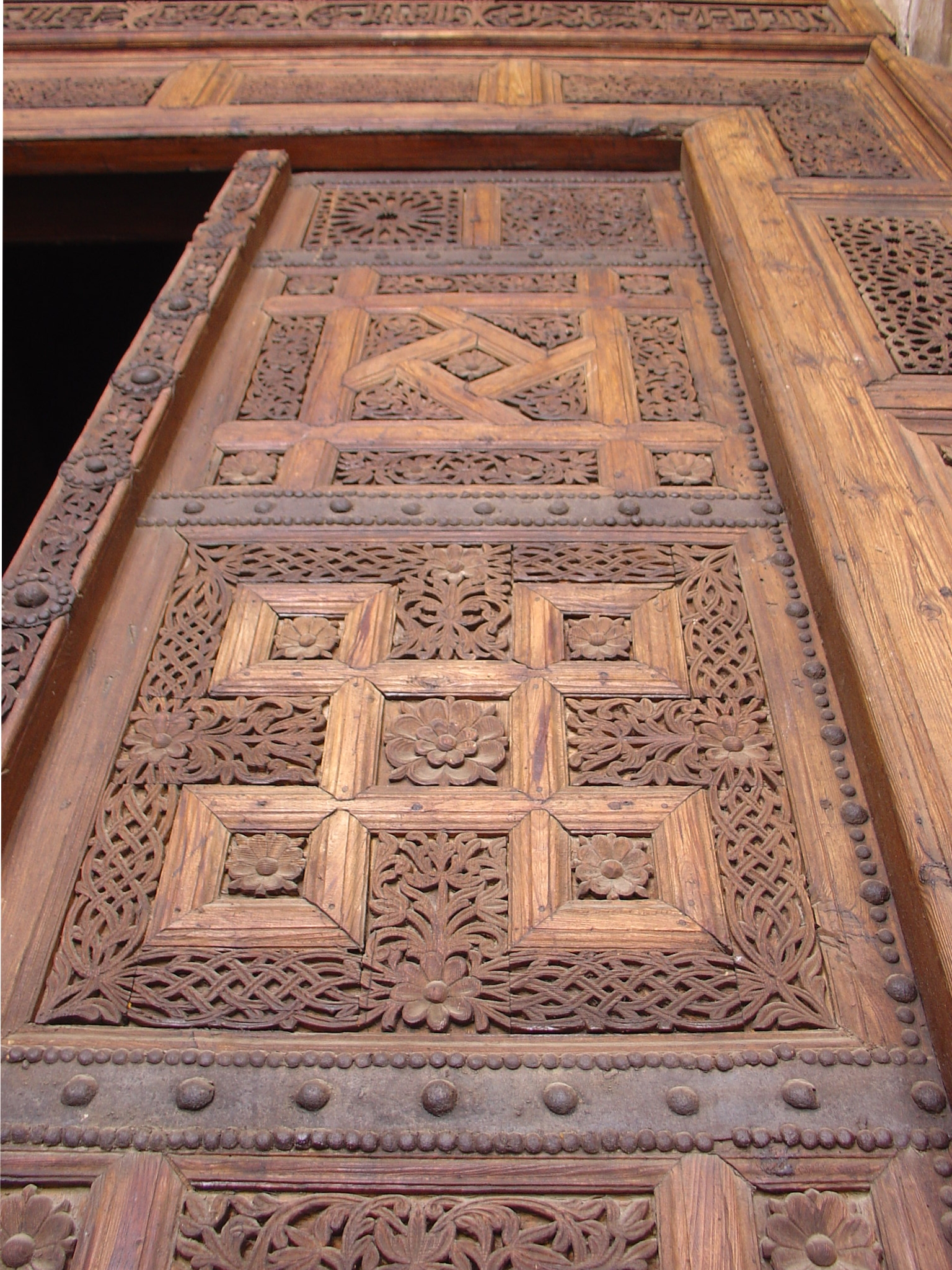 Wooden entrance doors of the Prayer hall—Great Mosque of Kairouan, Tunisia.